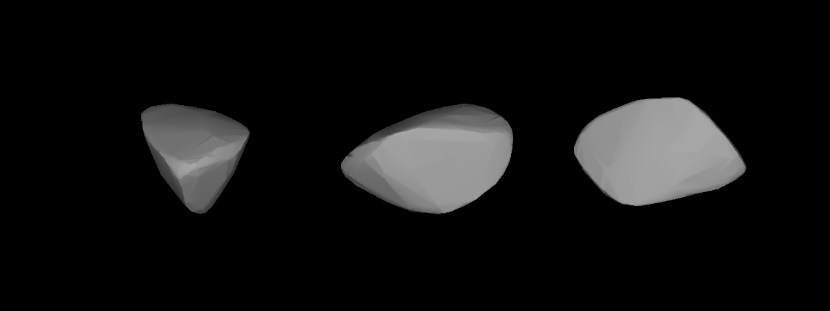 A three-dimensional model of 19848 Yeungchuchiu that was computed using light curve inversion techniques.